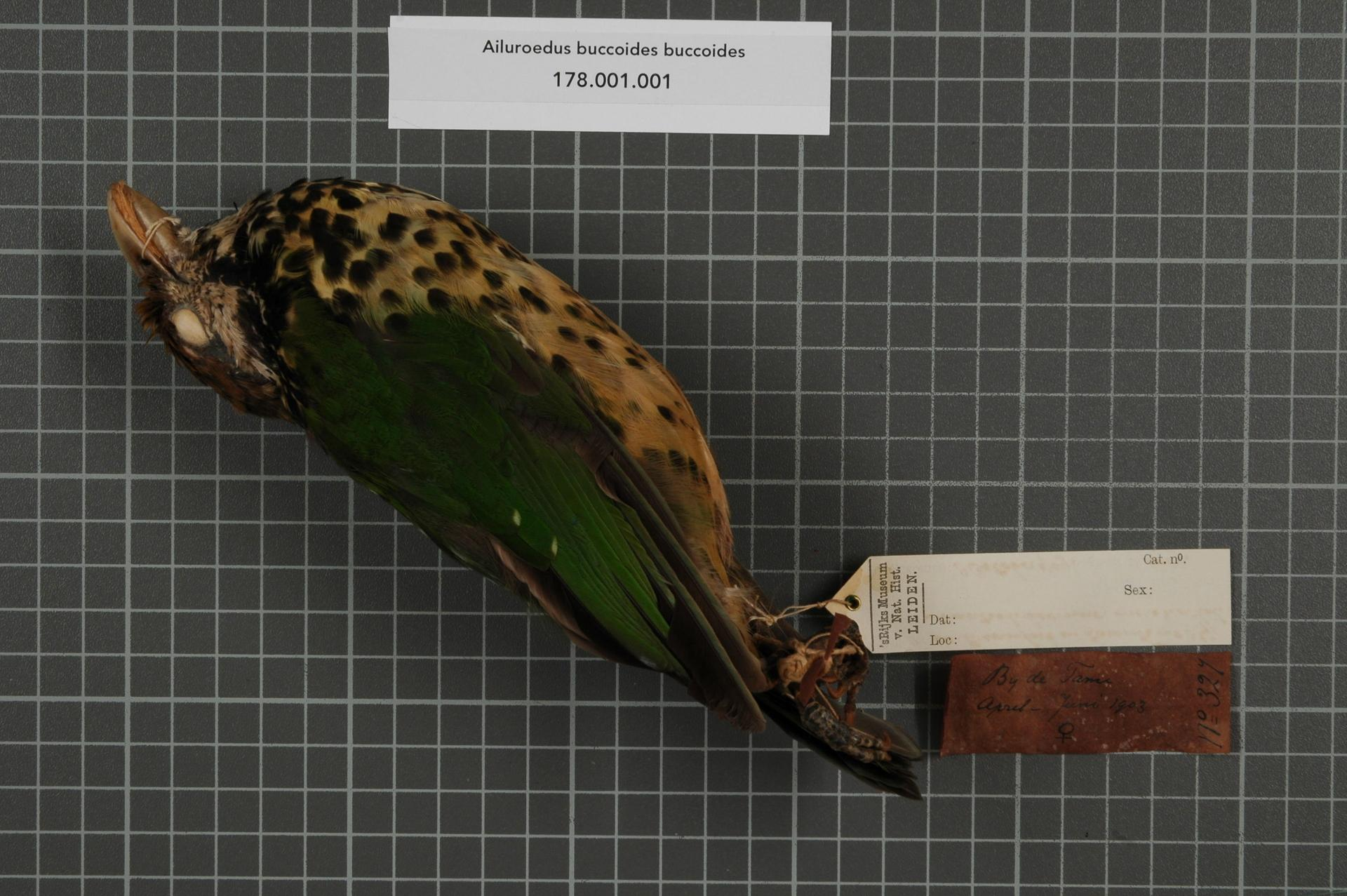 Ailuroedus buccoides buccoides (Temminck, 1835)